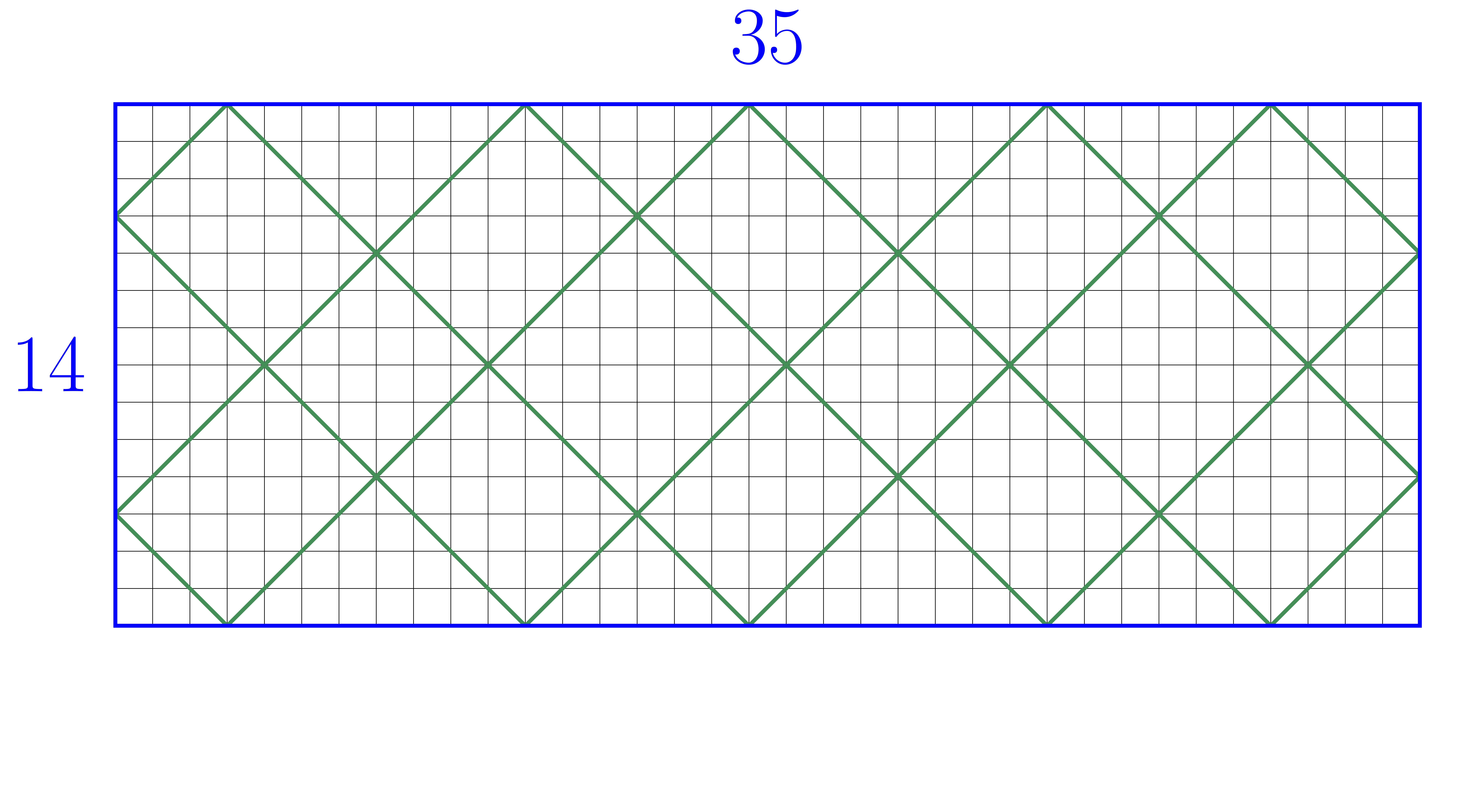 Mathematical image of an arithmetic billiard. Example (of a periodic path) with the numbers 35 and 14.